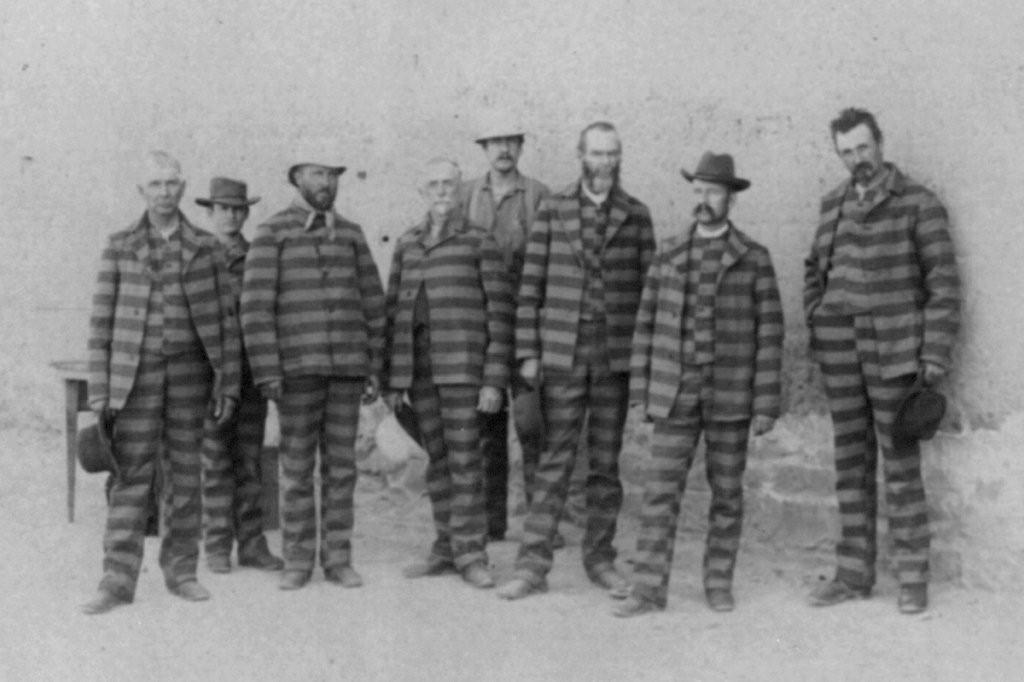 Group of polygamists in the Utah Penitentiary, 8 men standing in prison stripes.